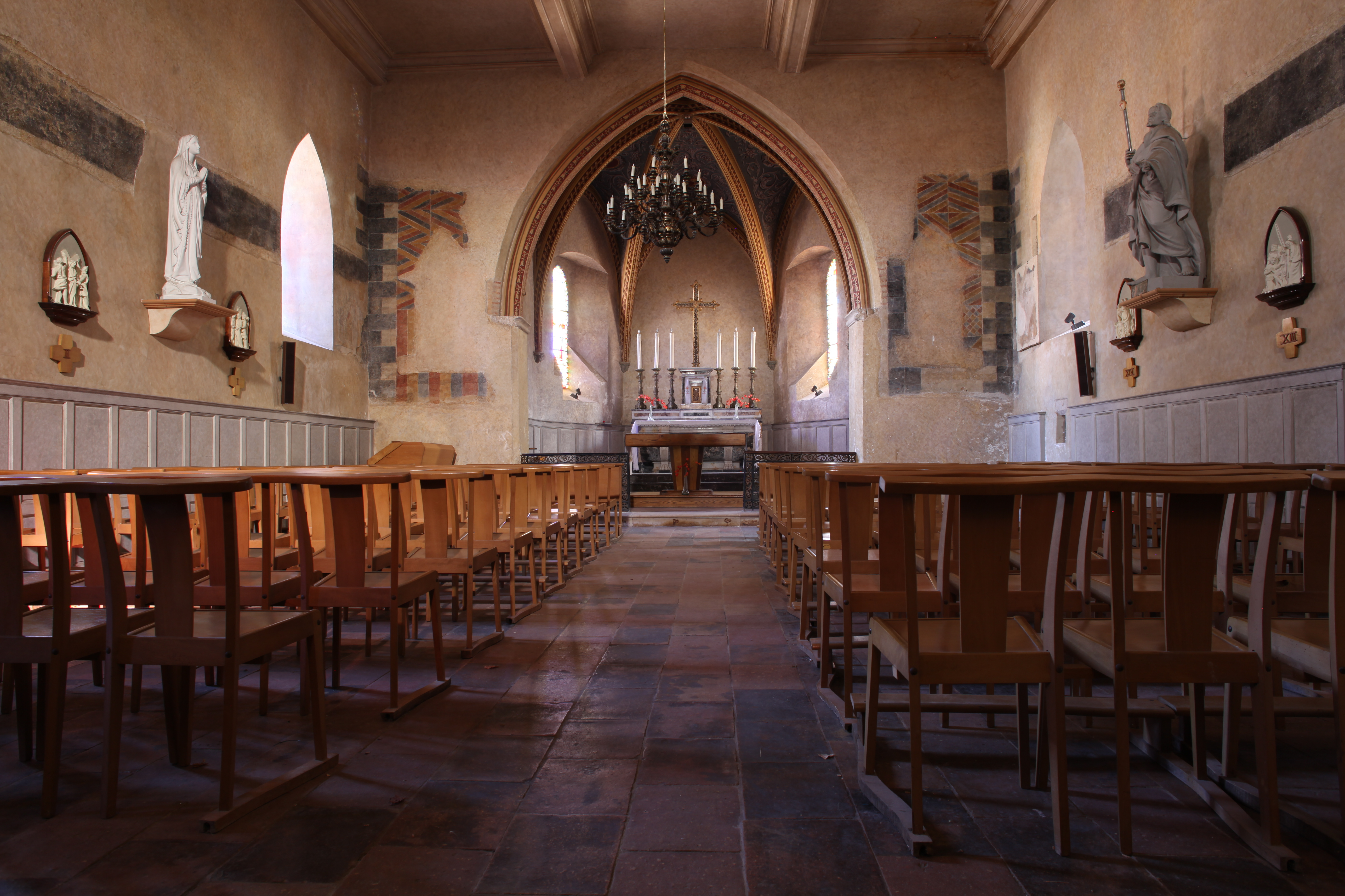 Pechbonnieu